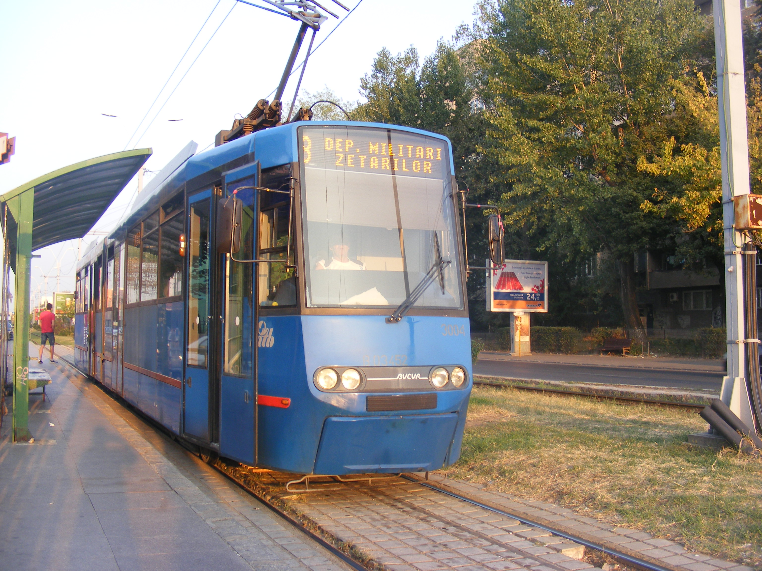 Bucur V2A-T type tram number 3004 in the tram stop "Sibiu" in Drumul Taberei on line 8. These trams were made between 1999 and 2009 and they were made by using scrapped Tatra T4R axles and completley modernizing them inside and outside. Trams from 3001 and 3003 had their own bodywork whilst 3004-3011 had bodywork similar to V3A CH PPC trams.